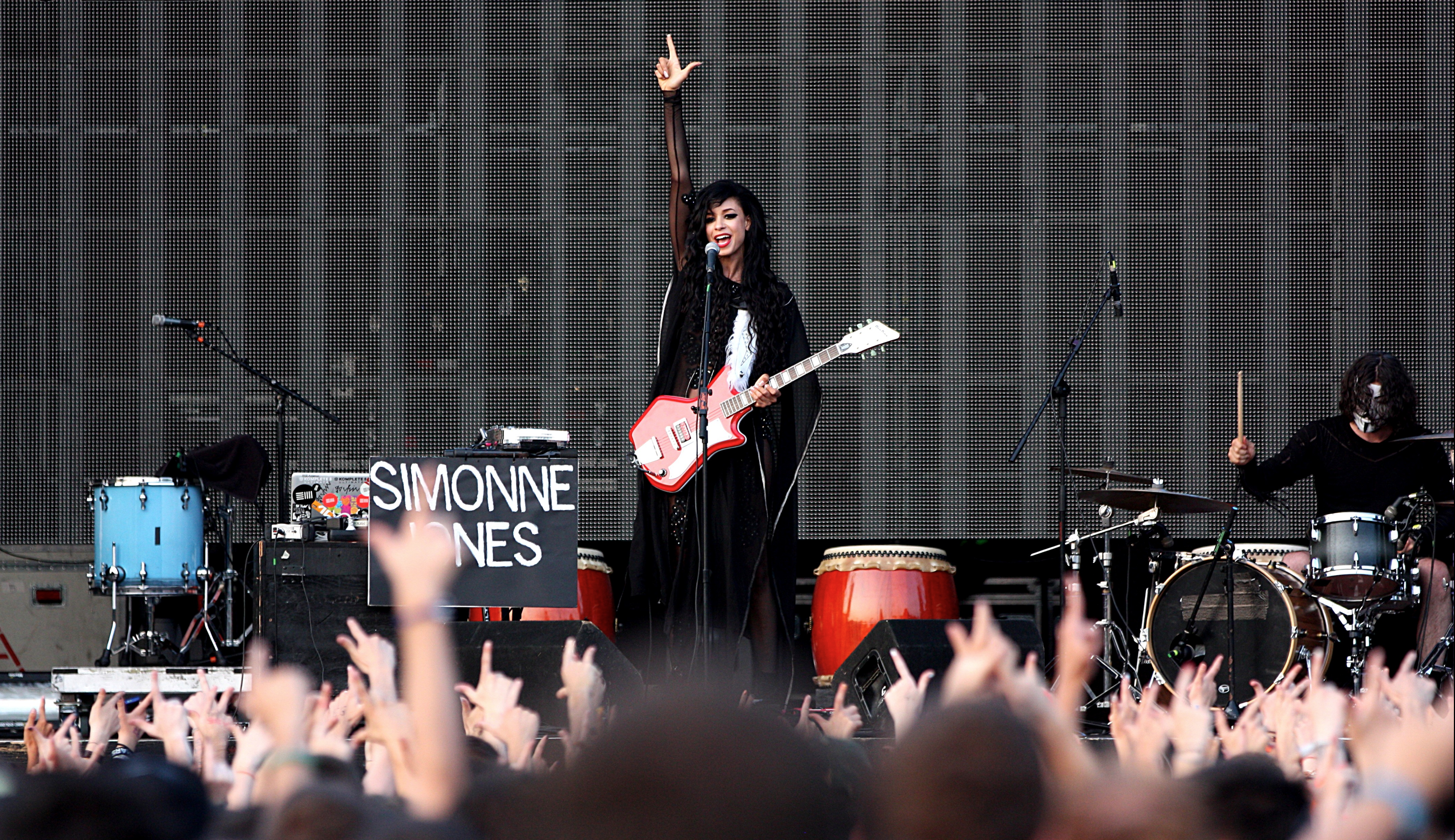 Simonne Jones playing Hydrogen Festival in Padova, Italy 2013